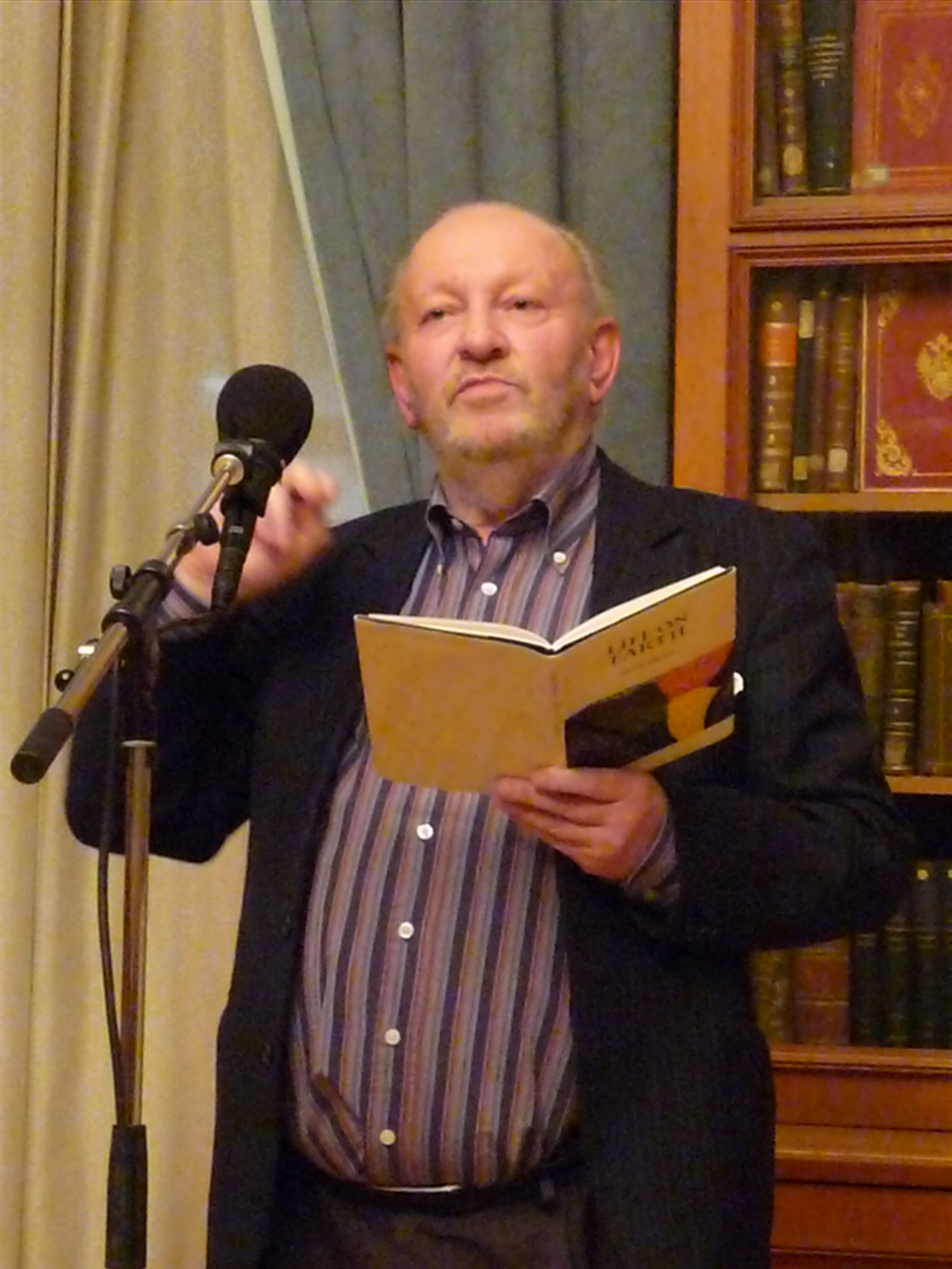 Derek Mayhon presenting his poems to the Russian audience at the poetry evening organized by the Irish Embassy in the Library of the Foreign Languages, Moscow